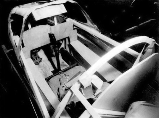 Cockpit - Mock-up of the Messerschmidt P.1112/V1 discovered by the US Army at Oberammergau in April 1945